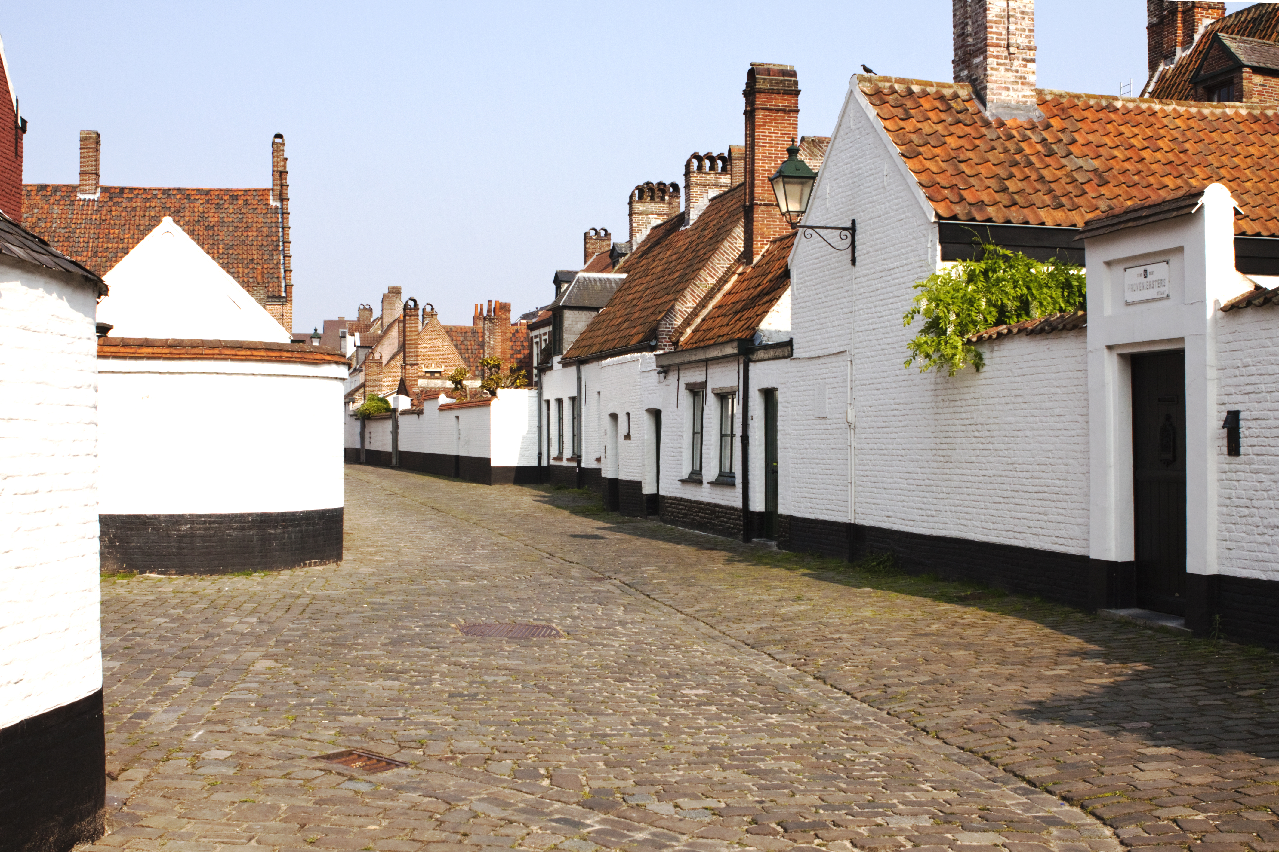 Beguinage.